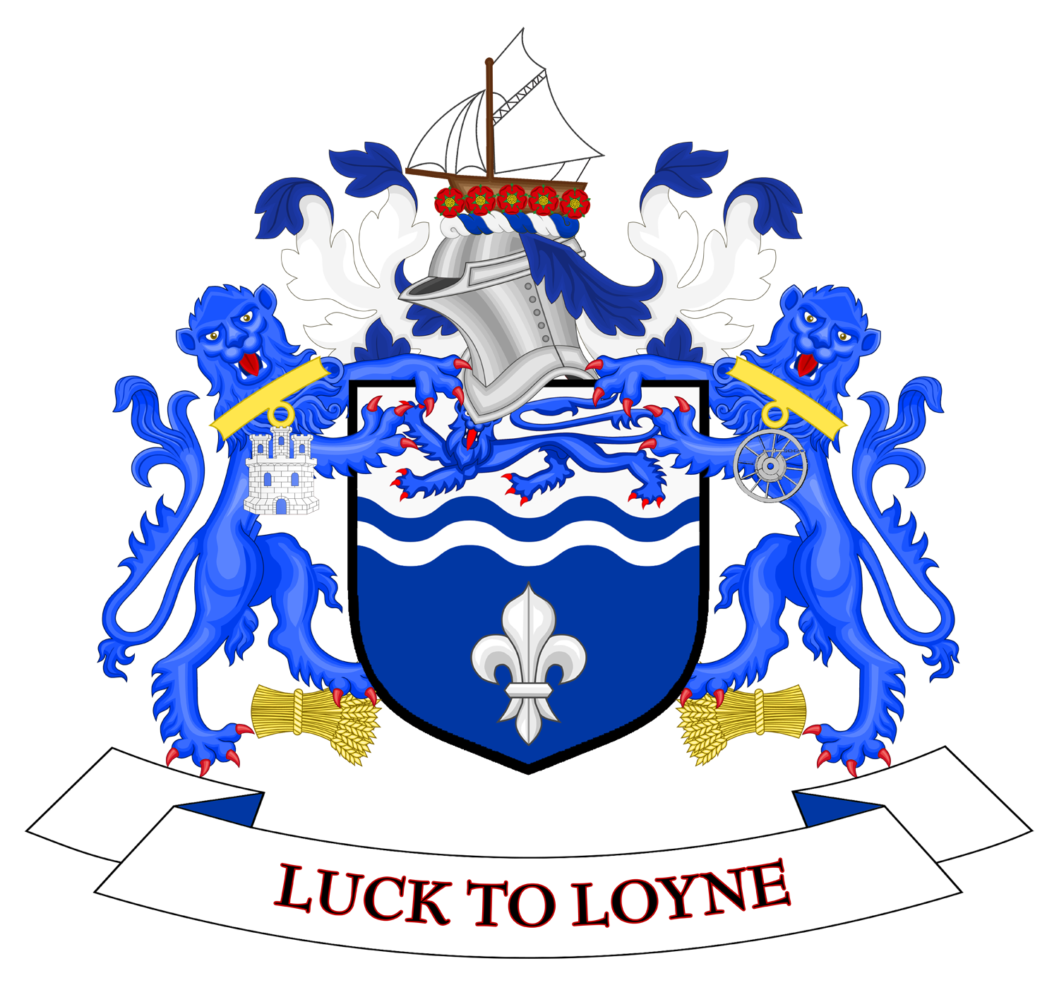 The Coat of arms of Lancaster City Council, the local government authority for the City of Lancaster, a district of Lancashire, England. The blazon is:ARMS: Per fess wavy Argent and Azure a Fess wavy between in chief a Lion passant guardant and in base a Fleur-de-Lys counterchanged.CREST: On a Wreath of the Colours in front of a Morecombe Bay Fishing Boat sail set proper five Roses in fess Gules barbed and seeded proper.SUPPORTERS: On either side a Lion guardant Azure that on the dexter gorged with a Collar pendent therefrom by a Ring Or a Grey Stone Castle of three Towers proper that on the sinister gorged with a like Collar pendent therefrom by a like Ring a Railway Engine Wheel proper each resting the interior hind foot on a Garb fesswise the ears inward Or.